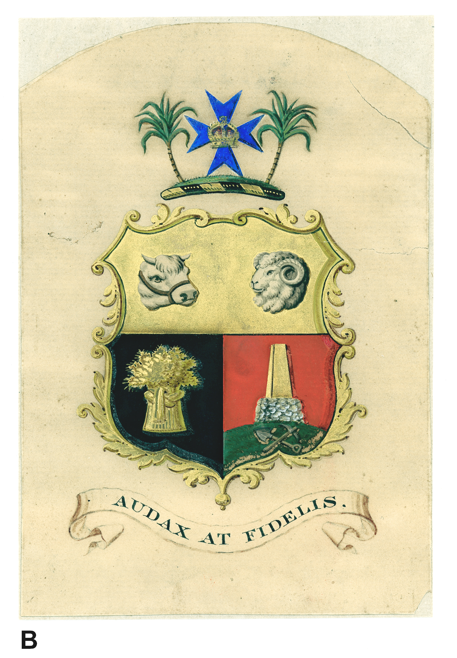 Ammorial Ensign of Queensland - Coat of Arms 1893